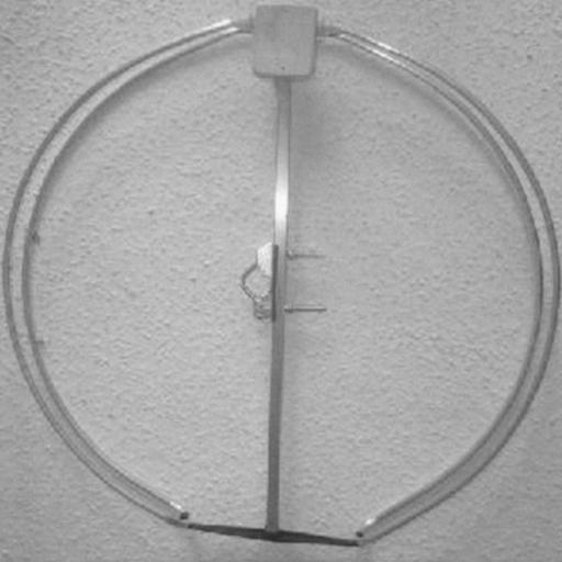 Omnidirectional RTV antenna for FM and UHF bands, uses broadband RTV 300Ω/75Ω balun for channels from 1 to 69